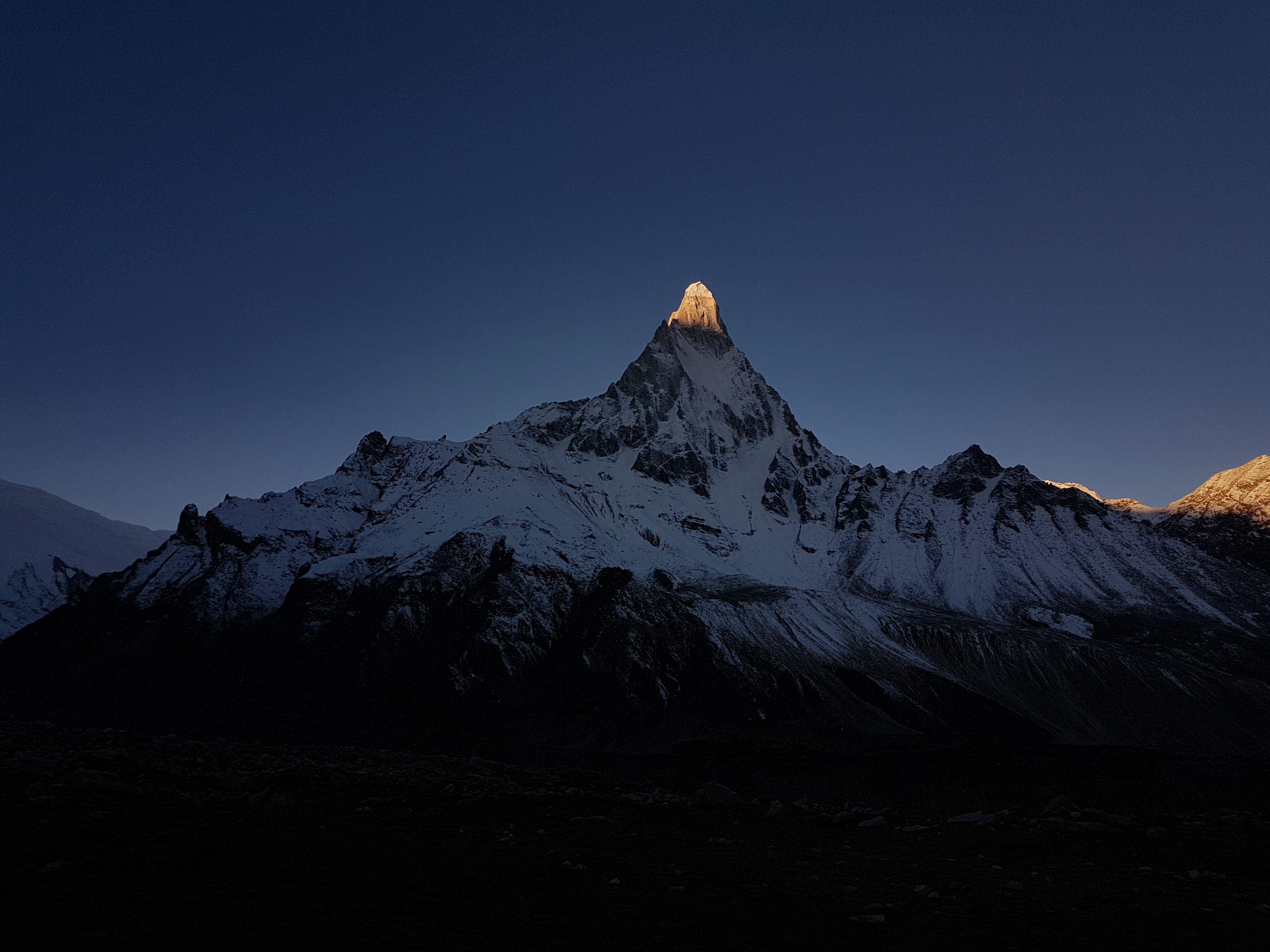 Mount Shivling as seen from Nandanvan campsite during sunrise